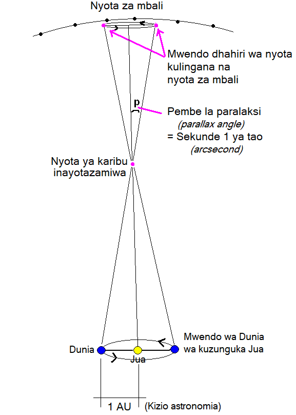 The apparent motion of a near by star is a small ellipse in the sky relative to background stars over the period of a year. The angle representing major axis radius of the elliptical path is the parallax angle. The minor axis radius angle is simply related to the direction of the star relative to the earth's orbital axis. Stars near the north and south poles will make perfect circles, while stars near the ecliptic will make flat ellipses. Kiswahili: Mchoro unaonyesha mwendo dhahiri wa nyota isiyo mbali sana mbele ya nyoto zilizo mbali zaidi katika mwendo wa mwaka 1, kama mahali pale panapimwa ilhali Dunia imefika sehemu tofauti kwenye oboti yake.